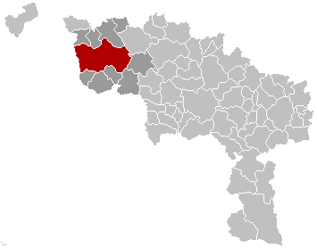 Localisation of Tournai in Hainaut